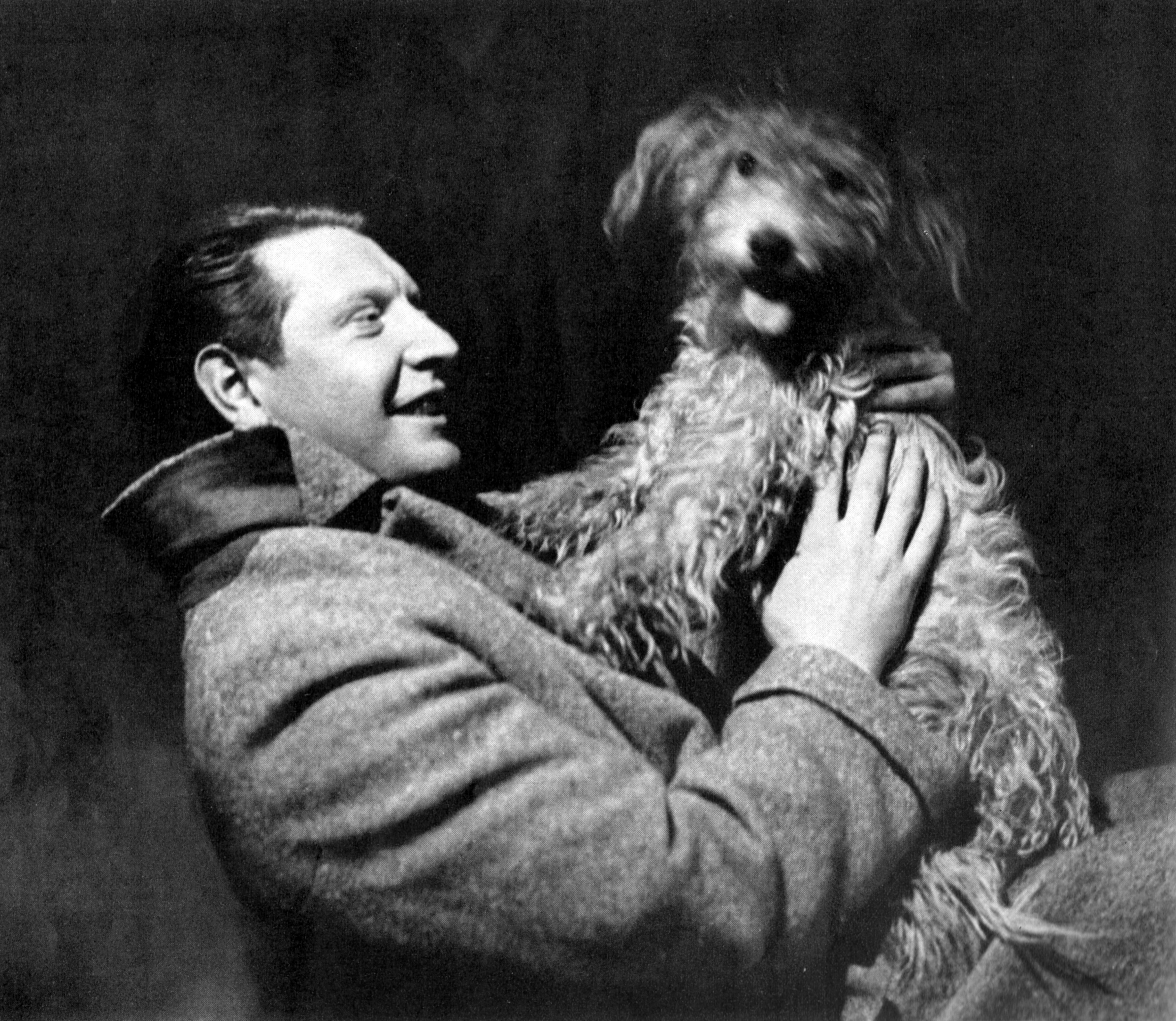 Photograph of actor Roger Livesey, star of the Theatre Guild production of Storm Over Patsy Caption: From the gaudy bawdries of The Country Wife Roger Livesey comes to Storm over Patsy, the story that Bruno Frank wrote about a small town and the fuss that arises over a dog license. James Bridie has adapted the play info English, given it a Scottish setting, and the Theatre Guild casts Mr. Livesey in the main role. He is pictured here with the innocuous pup that starts the storm in a Scotch teacup.